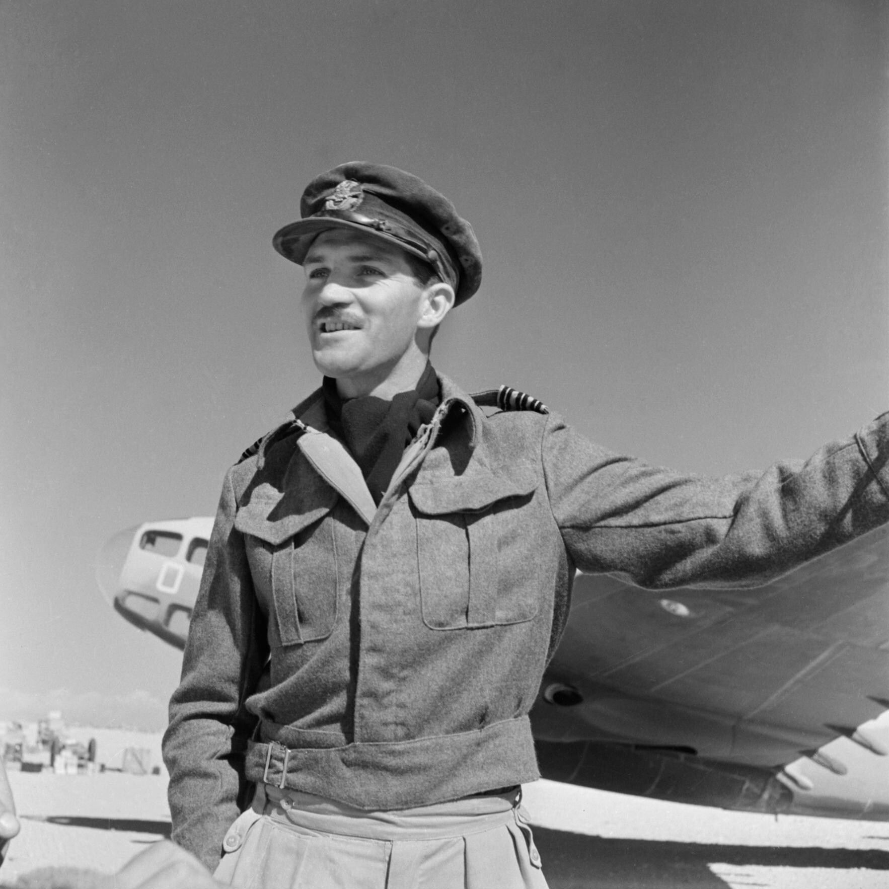 Royal Air Force- Operations in the Middle East and North Africa, 1939-1943. Wing Commander R G Yaxley, Officer Commanding No. 117 Squadron RAF, seen here at El Adem, Libya. Yaxley was awarded an MC while serving with an RAF armoured car company before the war. By December 1940 he was a Squadron Leader, commanding No. 252 Squadron RAF flying Bristol Beaufighters in the Western Desert. When 252 Squadron aircrews merged with No. 272 Squadron RAF, he also commanded that unit until February 1942 and was awarded the DFC. Following his promotion to Wing Commander he was given the command of No. 117 Squadron in July 1942, flying Lockheed Hudsons in North Africa and along transport routes to Malta and West Africa. By the end of 1942, the Squadron was heavily involved in resupplying forward Army units in Libya as part of No. 216 Group's Mobile Operations Force and Yaxley was instrumental in resupplying a force of fighters at a landing ground within enemy territory (LG 125), from where they conducted operations for a period in November 1942. He returned to the United Kingdom in February 1943, having been awarded the DSO, but was shot down and killed over the Bay of Biscay on 3 June 1943 whilst returning to the Middle East in a Hudson.